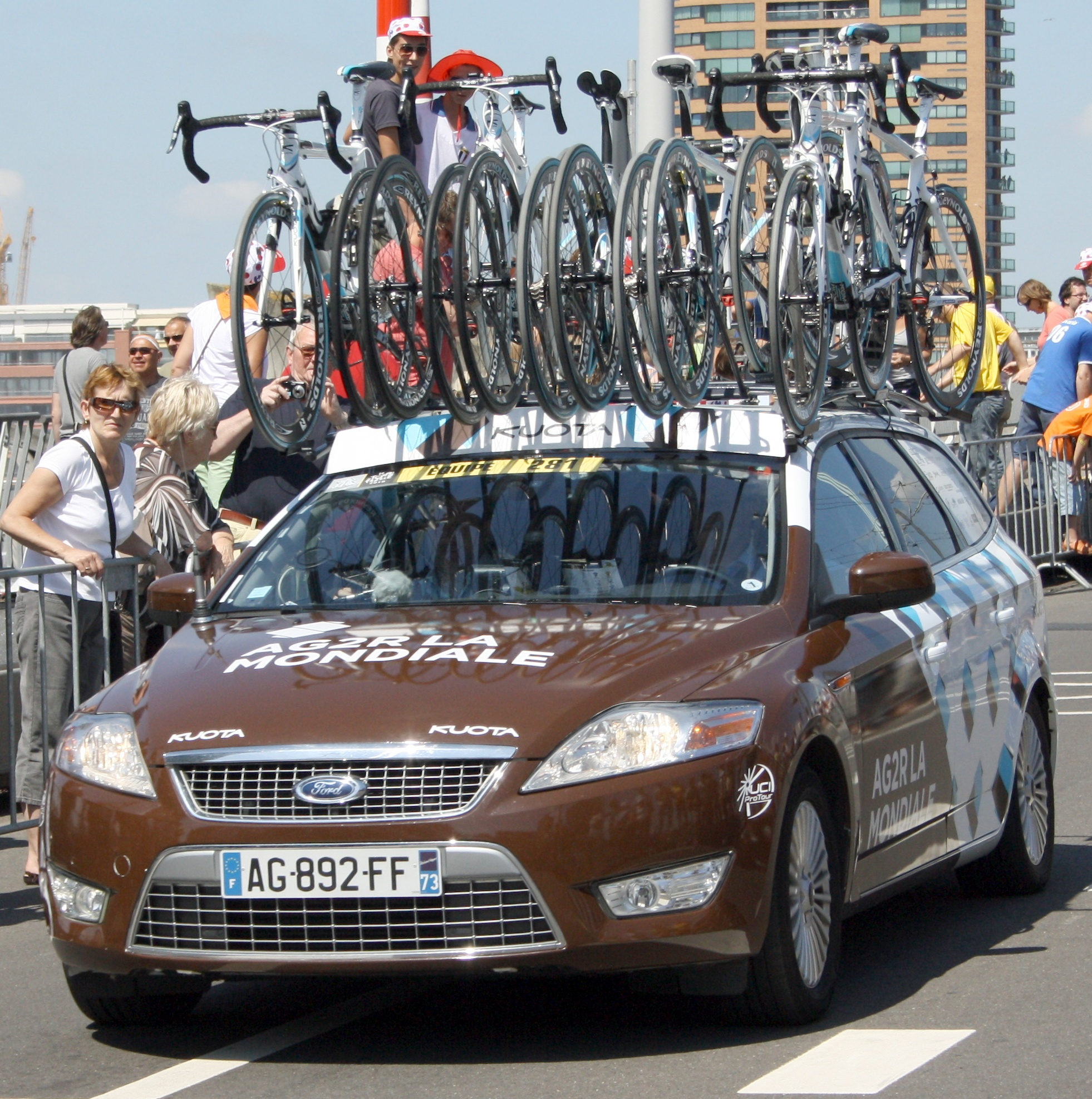 Ag2r-La Mondiale team car at the start of the first stage of the 2010 Tour de France in Rotterdam